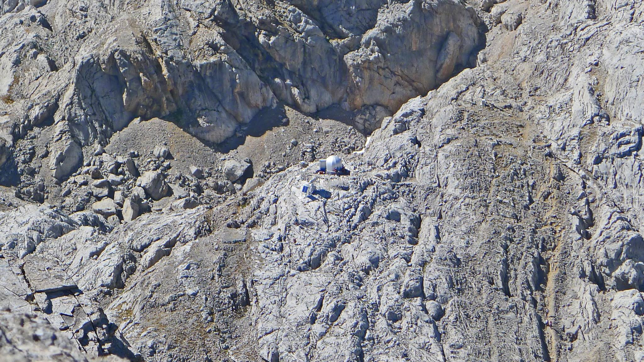 Cabaña Verónica desde Horcados Rojos